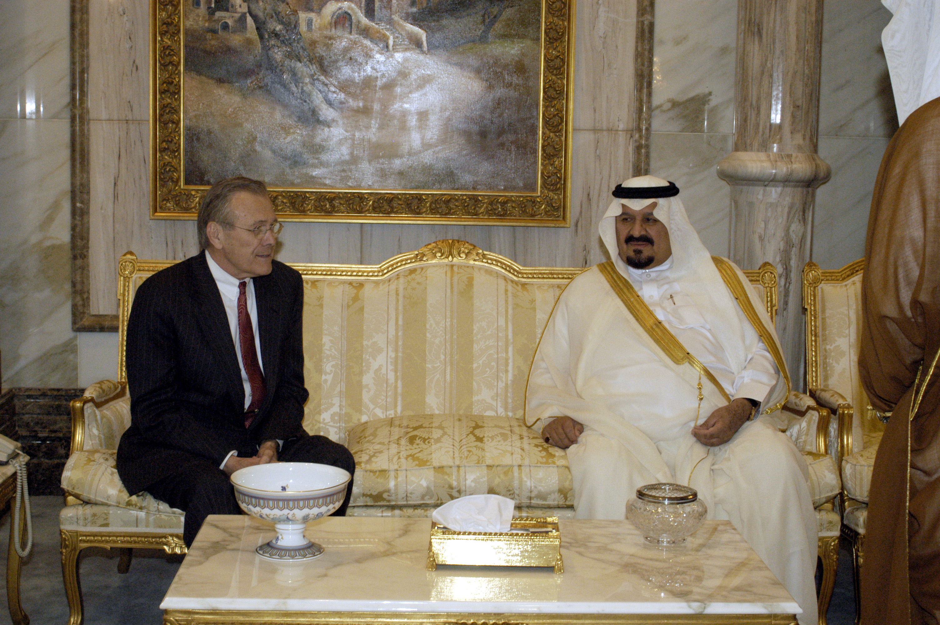 Secretary of Defense Donald H. Rumsfeld poses for photographs with Saudi Minister of Defense and Aviation Prince Sultan bin Abd al-Aziz Al Saud, prior to their meeting in Riyadh, Saudi Arabia, on April 29, 2003. Rumsfeld is visiting the troops and senior leadership in the Persian Gulf region.